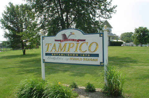 This is the sign that sits at the city limits of Tampico, Illinois. This is the sign that would be seen by people coming in from the north.